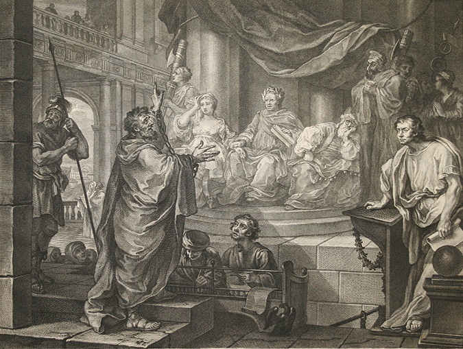 Original etching in black ink on wove paper. Inscribed in the margin and published in the Act Directs February 5, 1752: "Engraved by Wm. Hogarth from his original print shop in Lincoln Inn Hall . . ." From the original painting commissioned for Lincoln's Inn Hall.